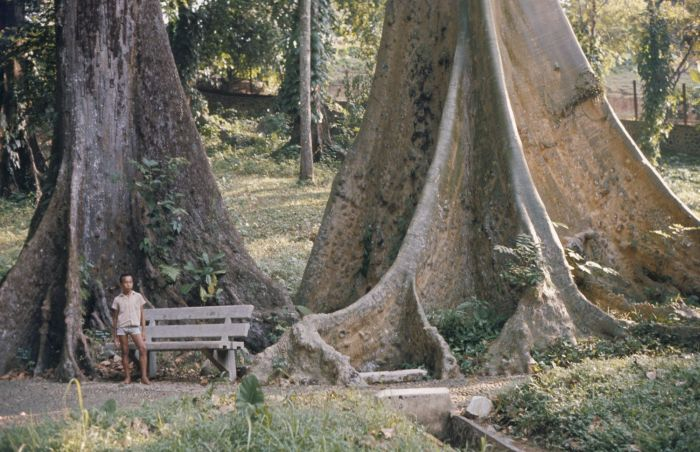 Buttress roots of trees in the Kebun Raya